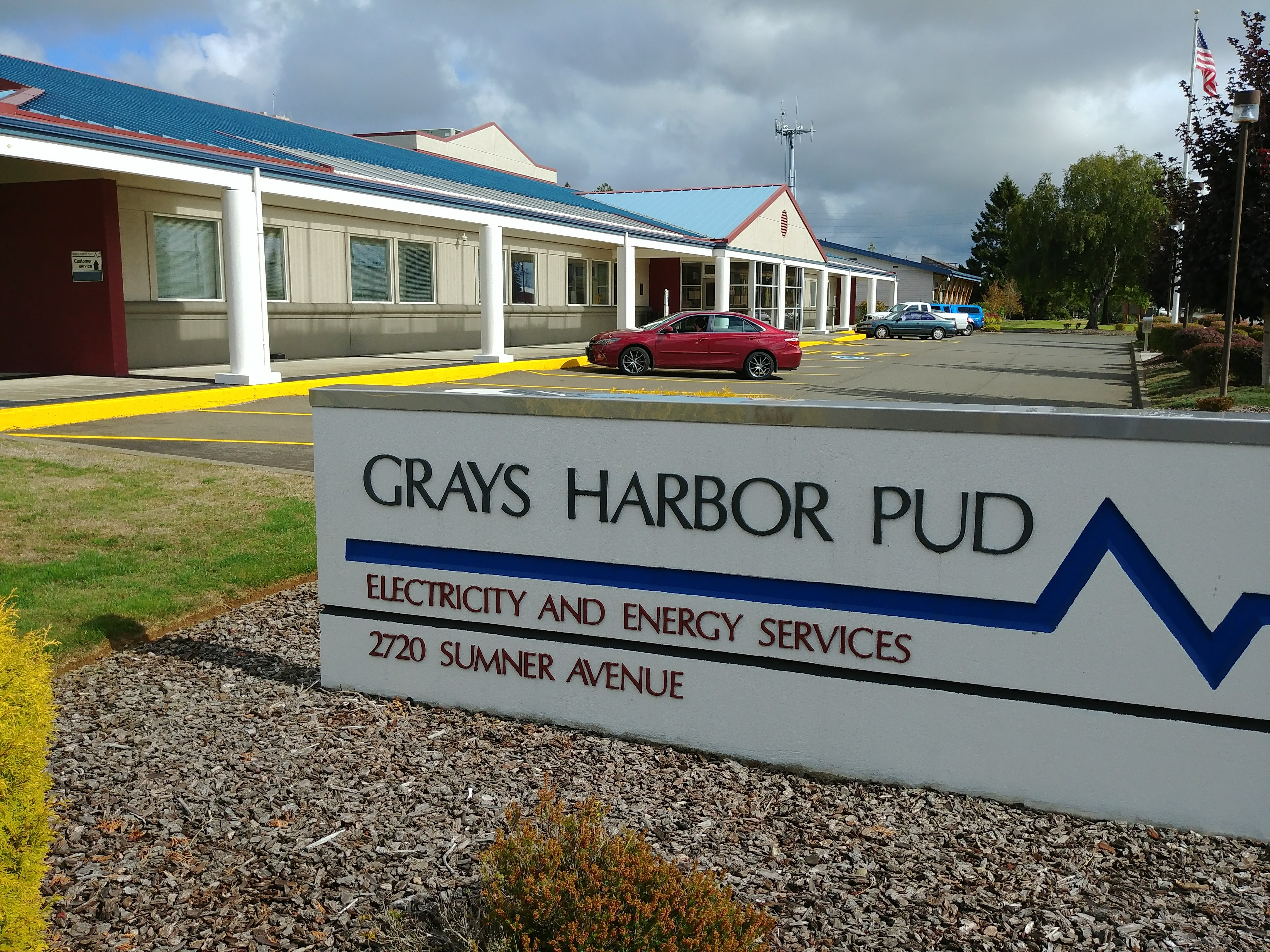 Exterior of the Grays Harbor PUD headquarters in Aberdeen, Washington